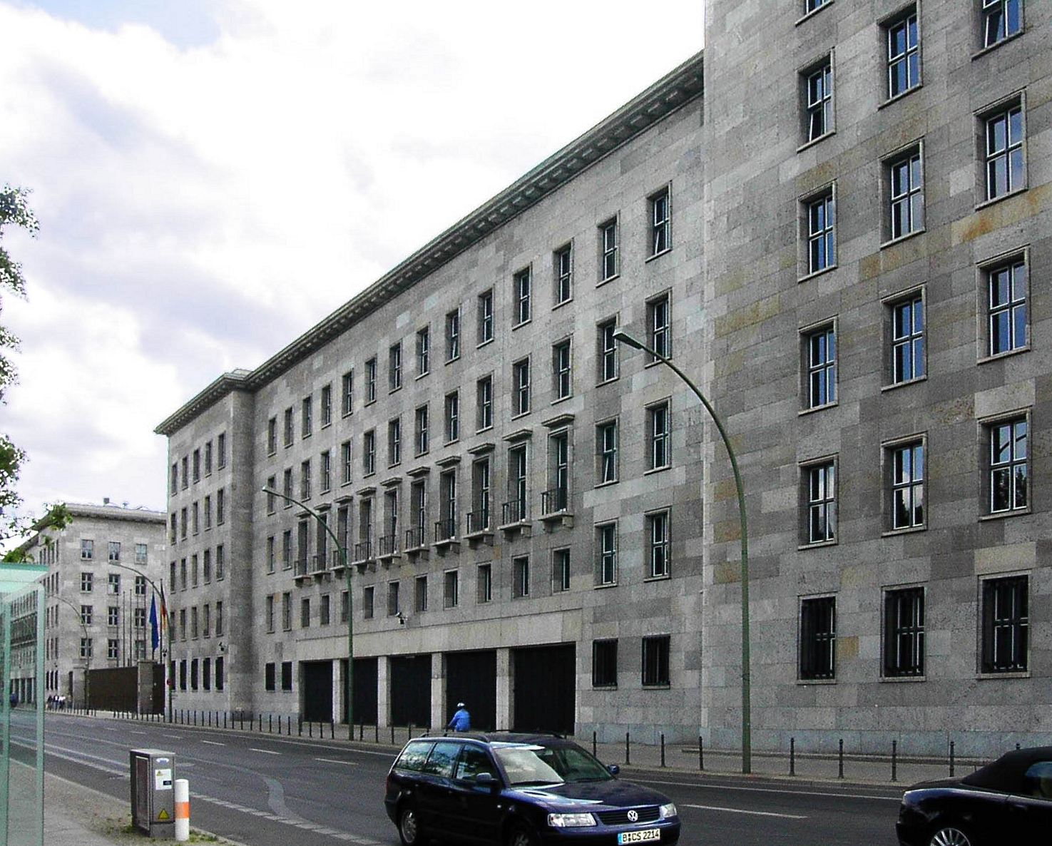 Berlin Wilhelmstrasse - Detlev-Rohwedder-Haus, seat of the Finance Ministry; formerly the DDR Council of Ministers (Haus der Ministerien), before that the Reich Air Ministry (Reichsluftfahrtministerium)